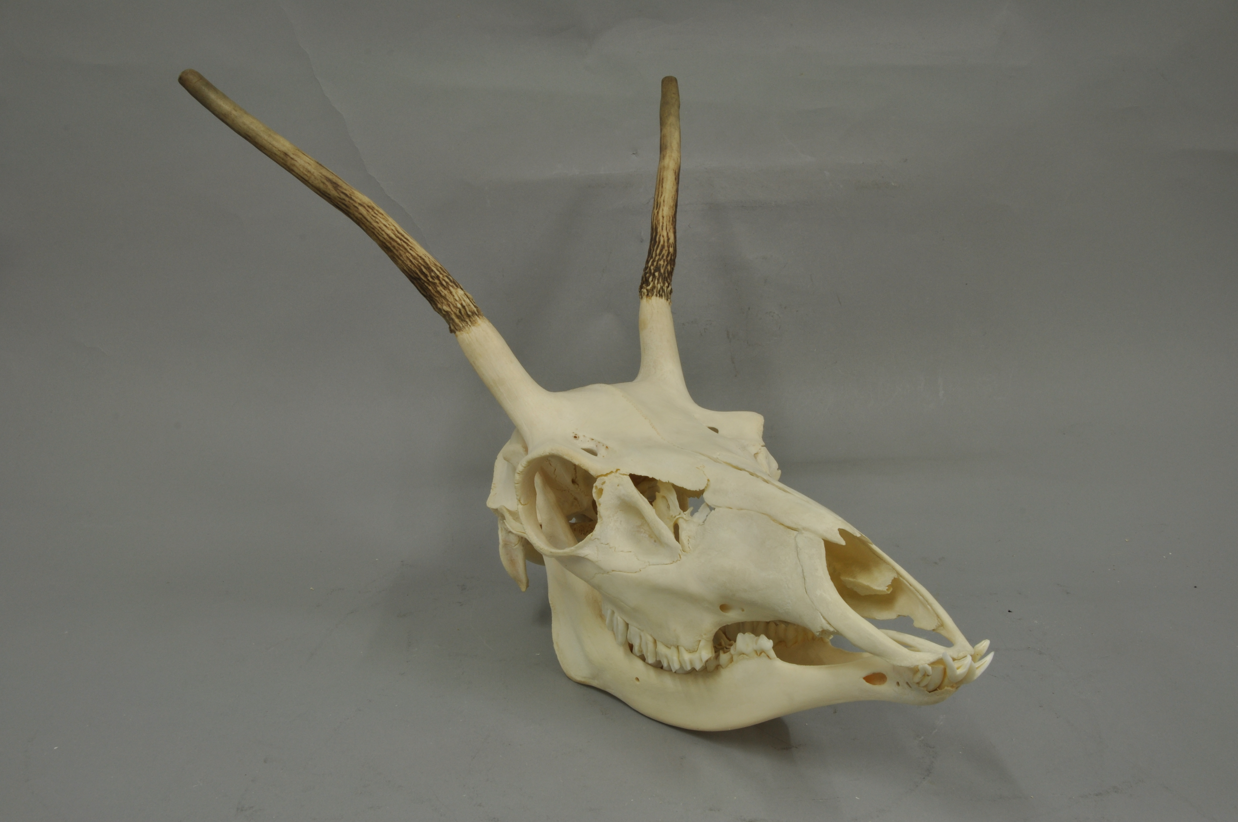 Red deer Cervus elaphus, skull, Coll. Museum Wiesbaden